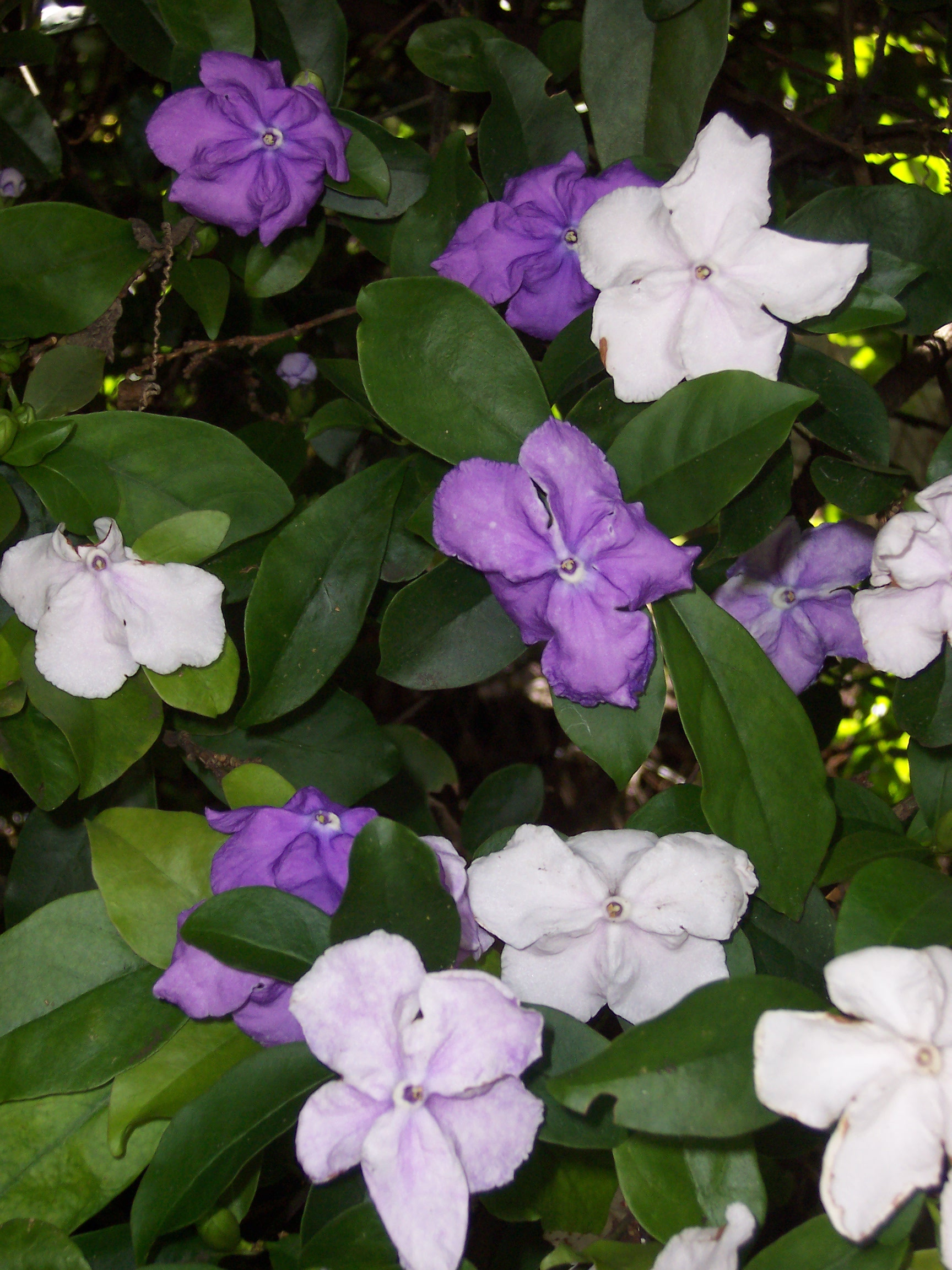 Brunfelsia uniflora (photo taken on Réunion island)